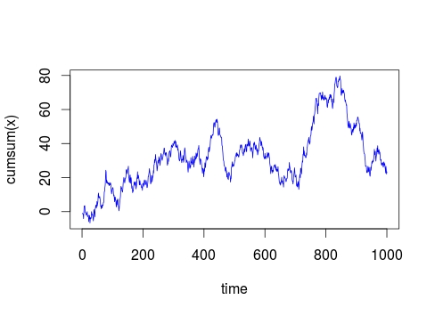 Stochastic processes with random increments from a gaussian distribution mean=0 and variance=1